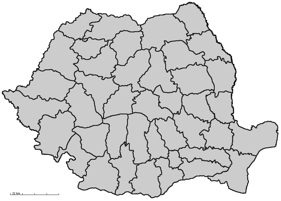 Blank map of Romanian districts (counties, judete)